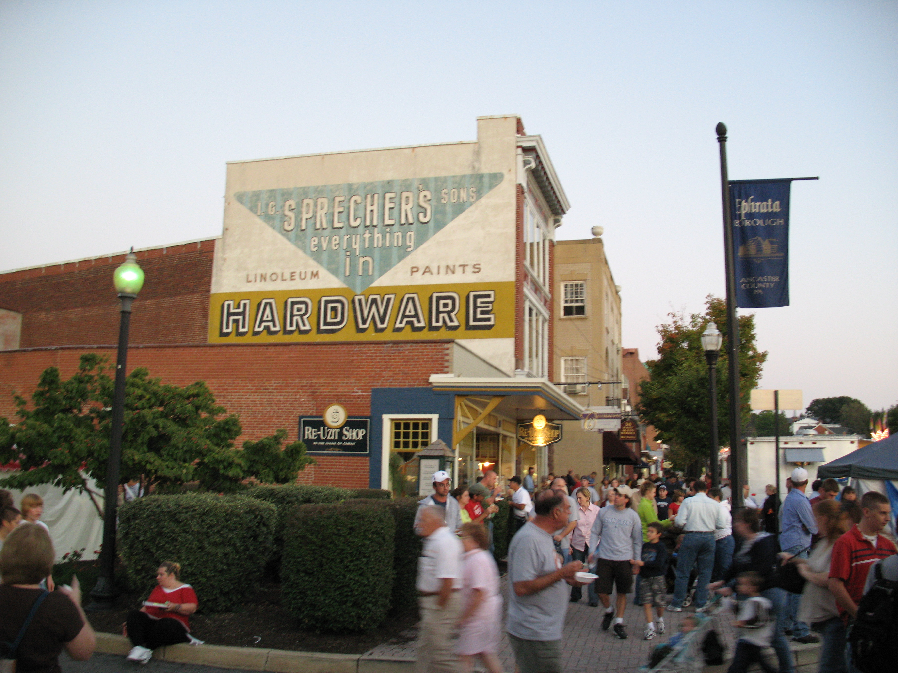 The sign for Sprecher's Hardware (which closed several years prior) during the Ephrata Fair, looking up Main Street from near State Street (former US 222), Ephrata, Pennsylvania